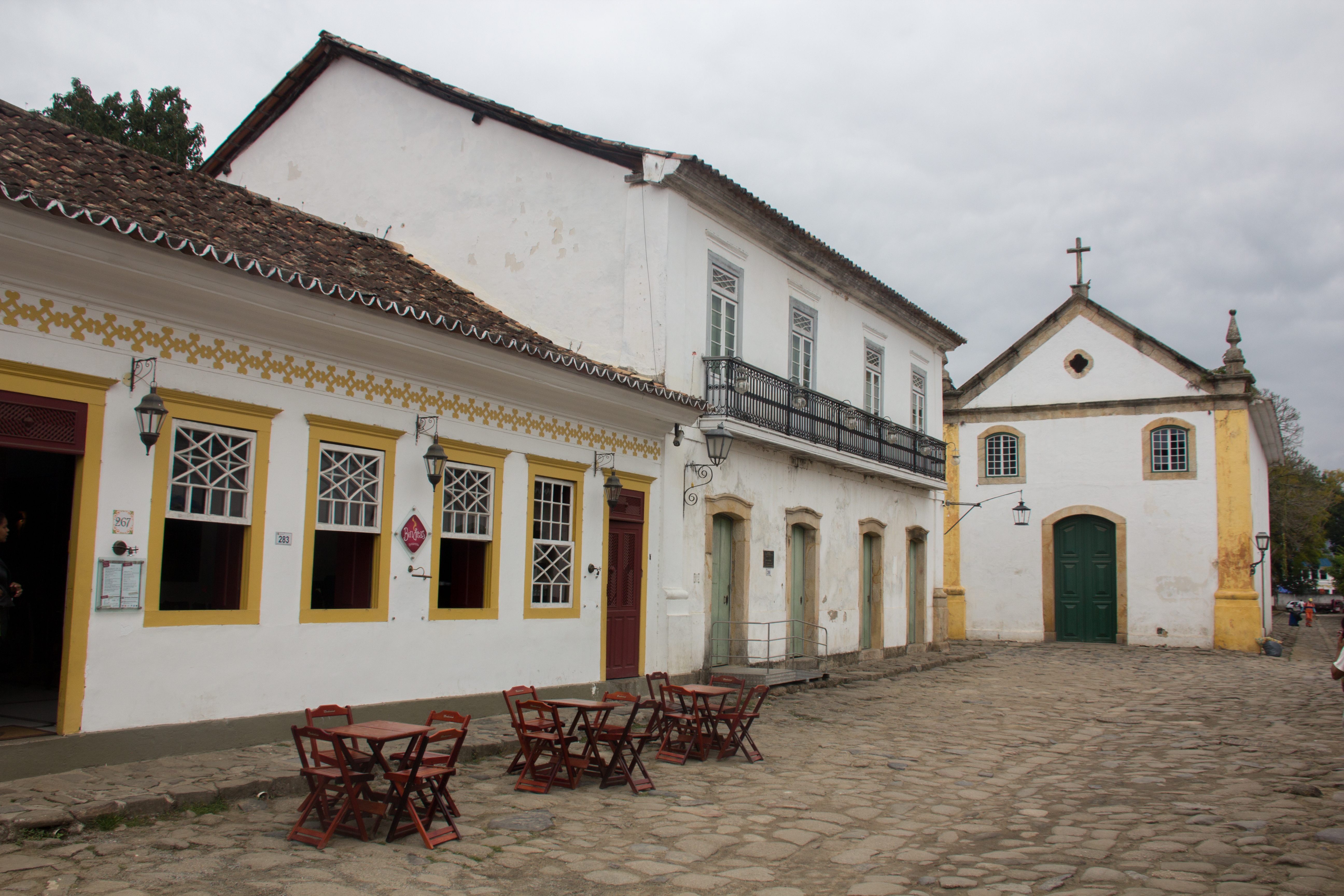 Paraty, State of Rio de Janeiro, Brazil